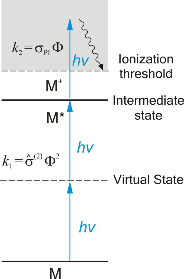 (2+1) REMPI (resonance enhanced multiphoton ionization) Scheme